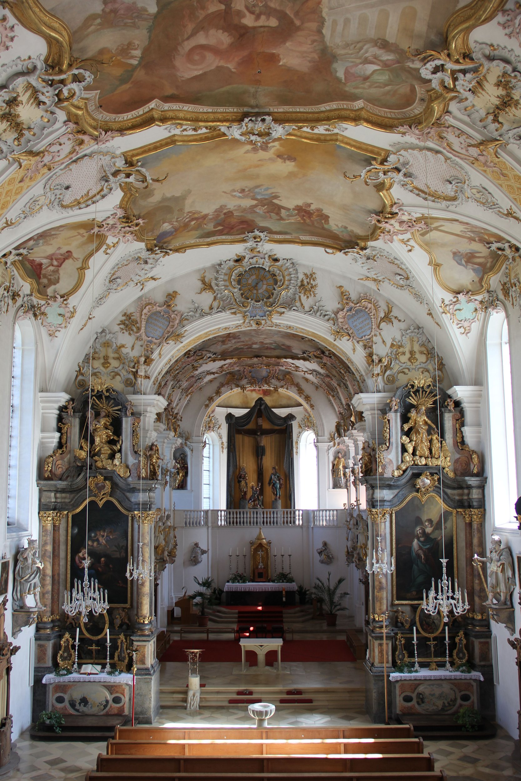 Sankt Jakobus und Laurentius in Biberbach Native nameSt. Jakobus und LaurentiuskircheLocationBiberbach, Swabia, GermanyCoordinates48° 30′ 54.36″ N, 10° 48′ 51.43″ E Authority control : Q18340160 GND: 4362167-3 institution QS:P195,Q18340160